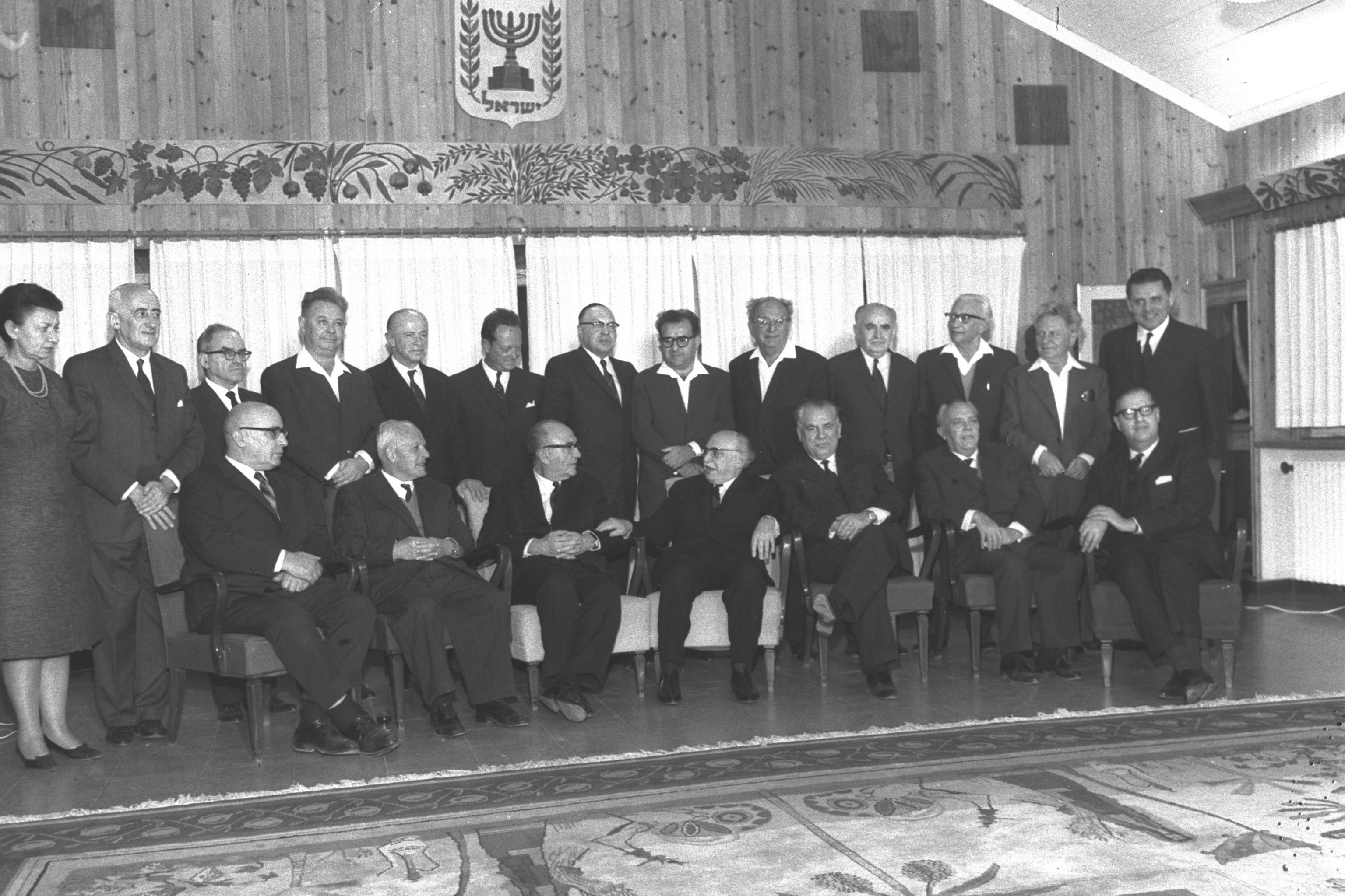 THE NEWLY FORMED CABINET HEADED BY P.M. ESHKOL CALLING ON PRESIDENT SHAZAR AT BEIT HANASSI IN JERUSALEM. MORE DETAILS IN HEBREW CAPTION.